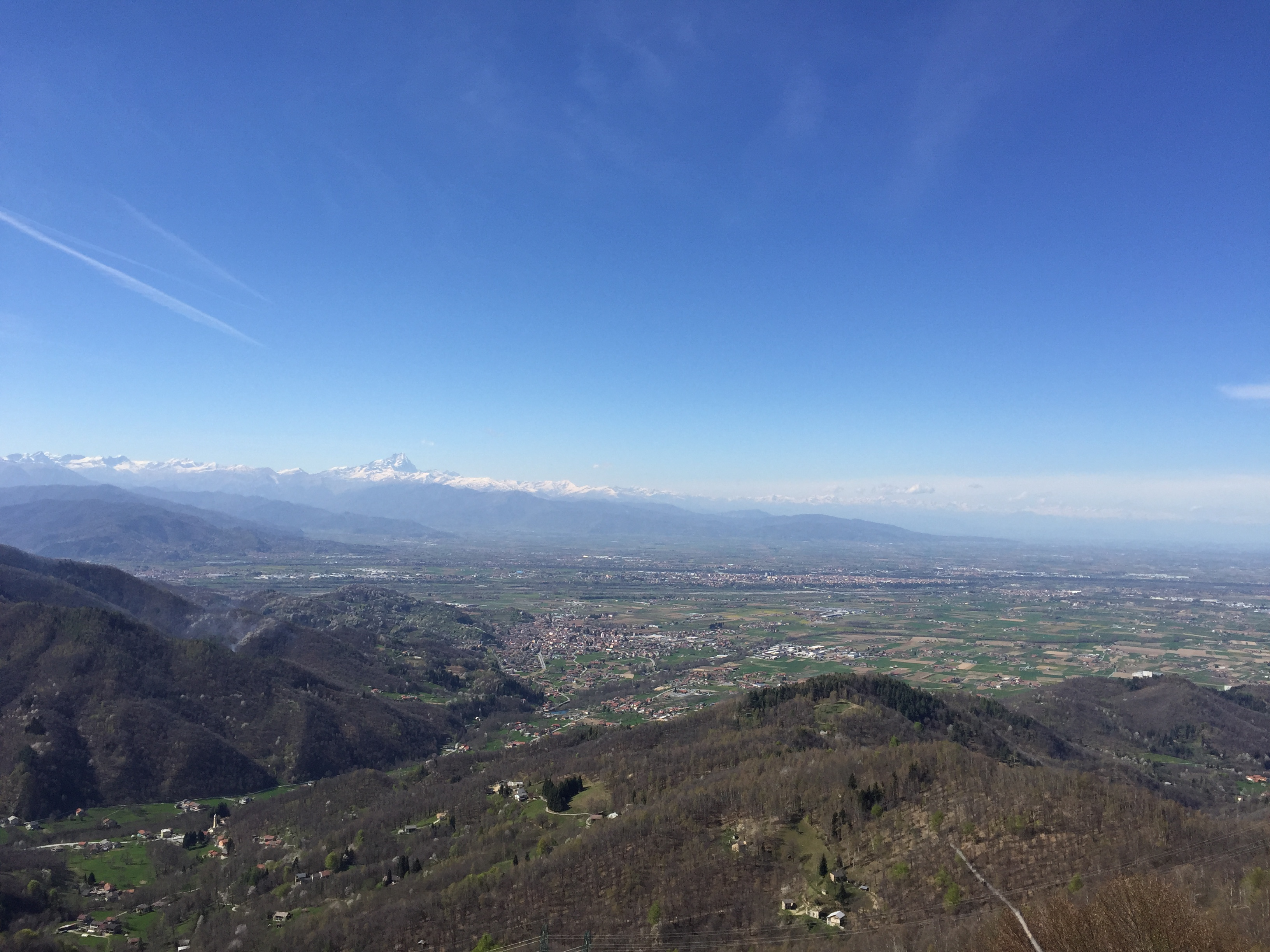 Boves, Province of Cuneo, Italy